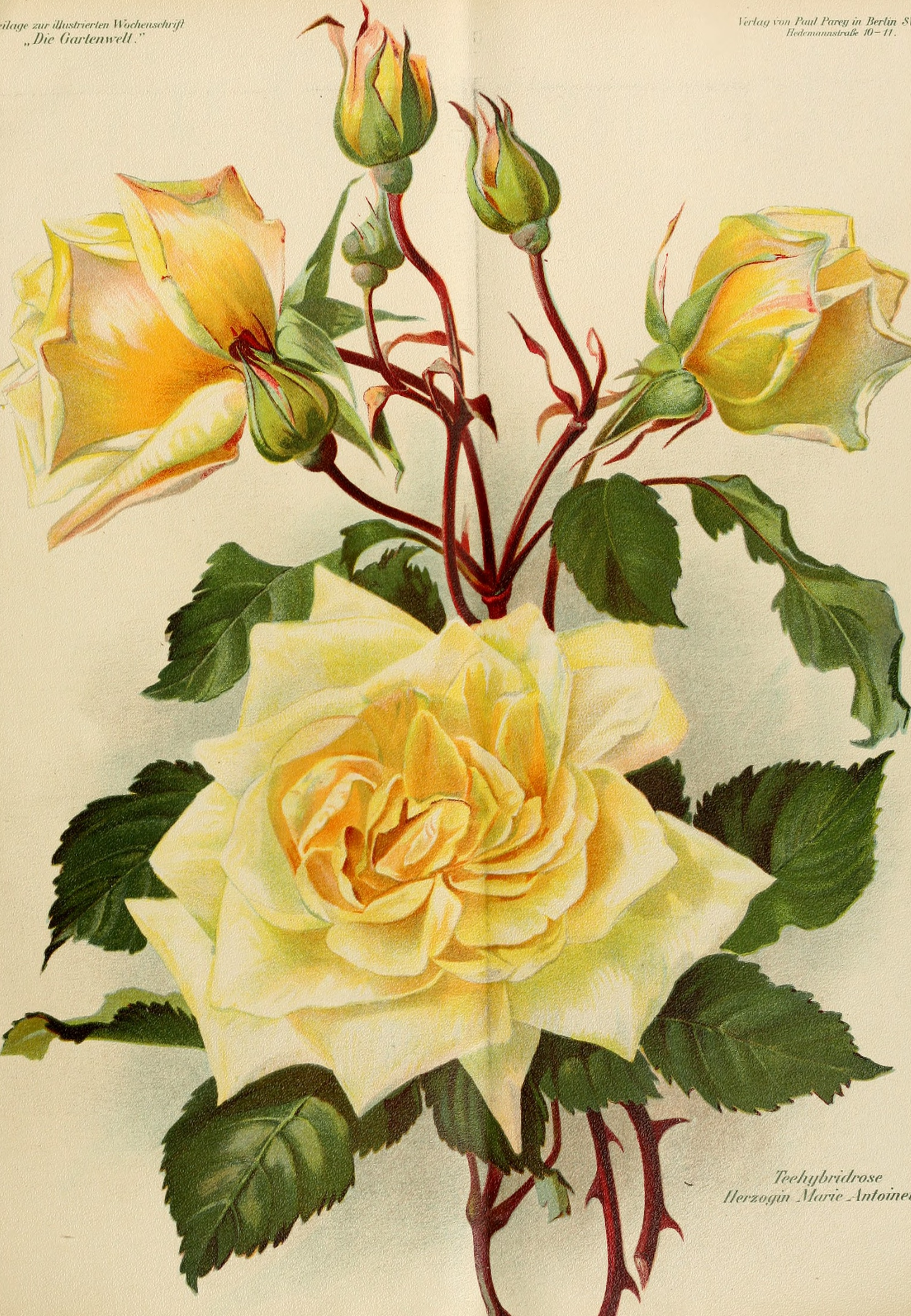 Title: Die Gartenwelt Year: 1897 (1890s) Authors: Subjects: Gardening Publisher: Berlin : G. Schmidt Text Appearing Before Image: Hri//li/f y.iir fUttsIrtertfli 11 'itclu'it.srhriß „Die (idiienwi'U." S'i'rttttt i'ti/i hiiil Pfireiiin llerlin •'^U'// ll,;l.„„tmislralk 10-11. Text Appearing After Image: Tt'f'/ii/hrif/ro.ifi //prxf/ffiji . Miiriv Antoinetfe